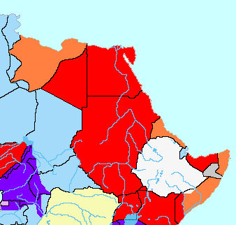 Italian map of colonies in Africa in 1914.